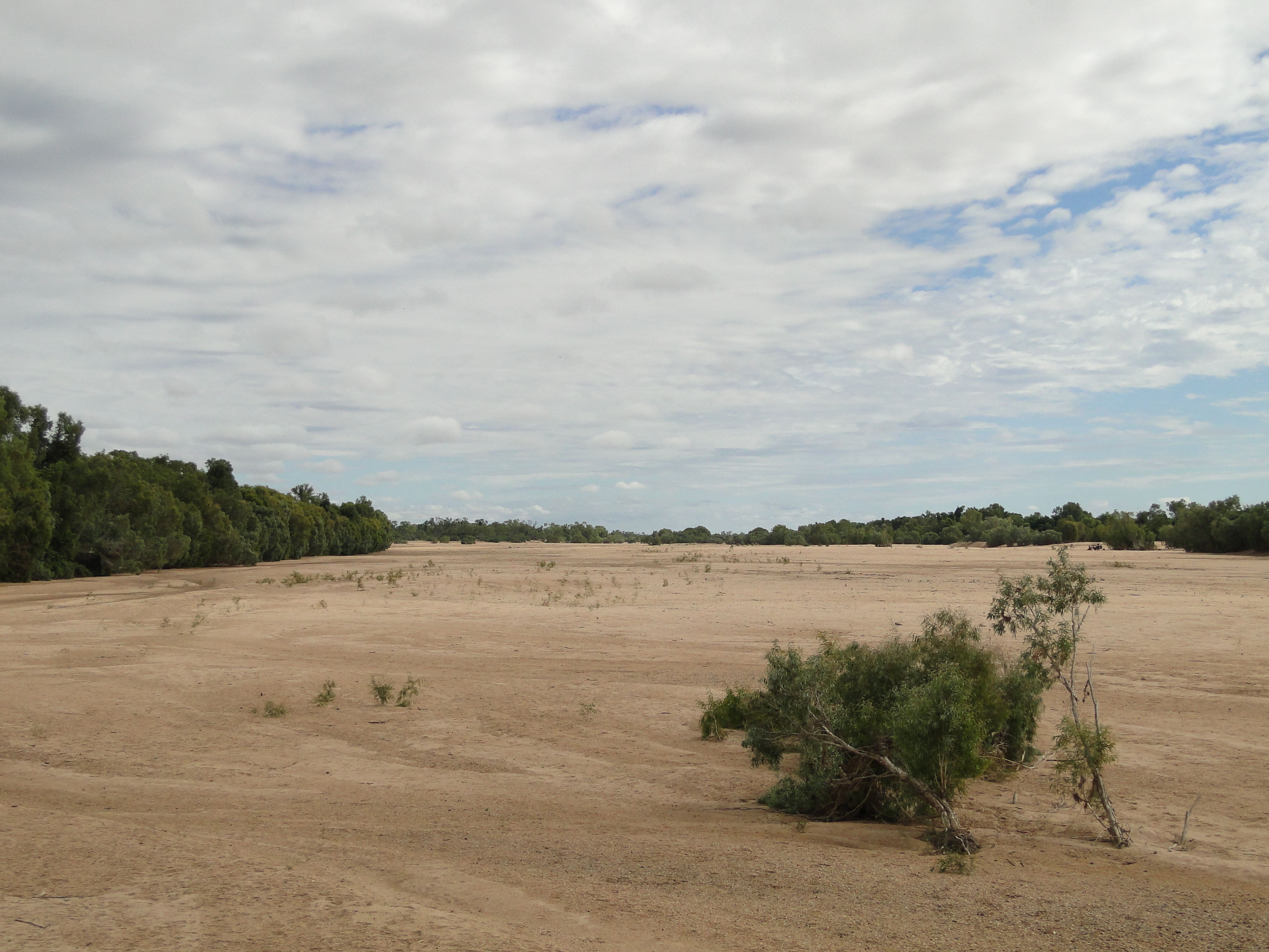 The Gilbert River in north Queensland. Photo taken from the bridge on the Gulf Development Road. The wide river is seasonal, and is dry and sandy during the dry season.